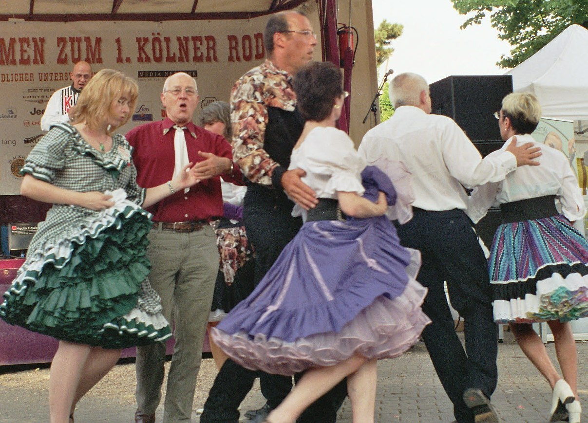 Western Square Dance Group. The women are wearing traditional layered net crinoline petticoats.